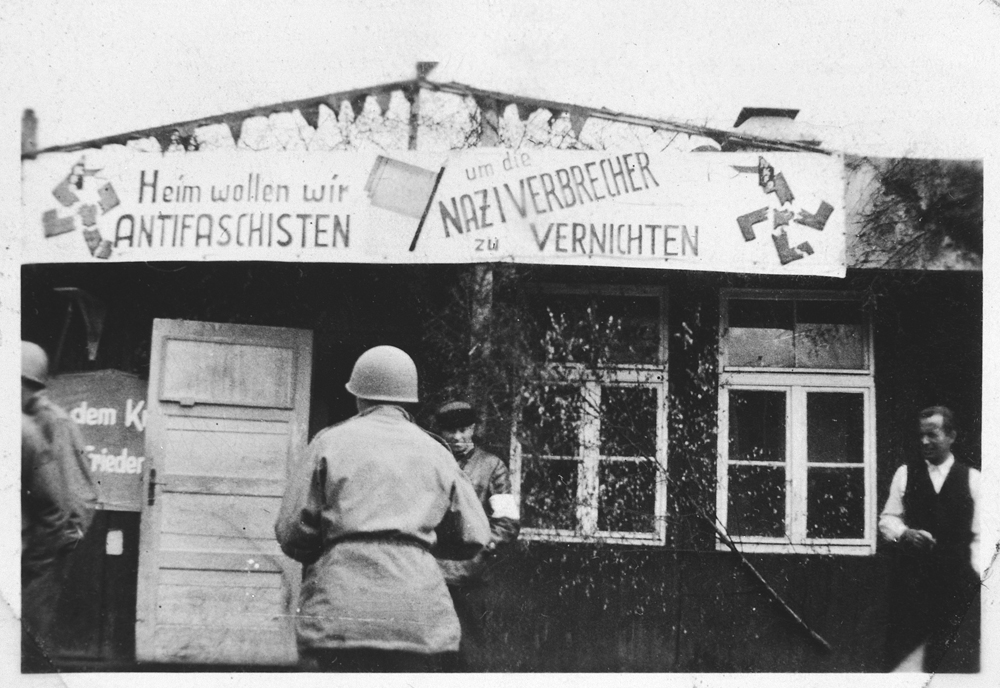 An American serviceman looks at an anti-Nazi banner hanging outside a barrack in the Buchenwald concentration camp. Ezra Underhill was a sergeant with the 6th Armored Division of the United States Army. English We anti-fascists want to go home to eradicate the Nazi criminals." (the original German sign rhymes